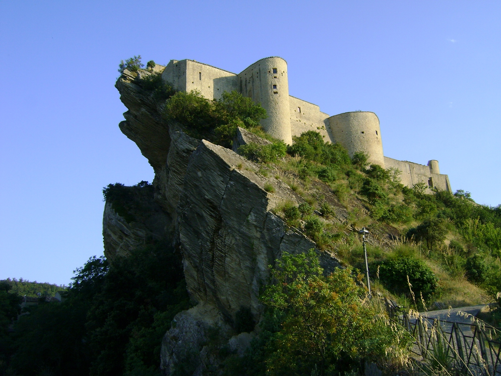 The castle of Roccascalegna, province of Chieti, Abruzzo